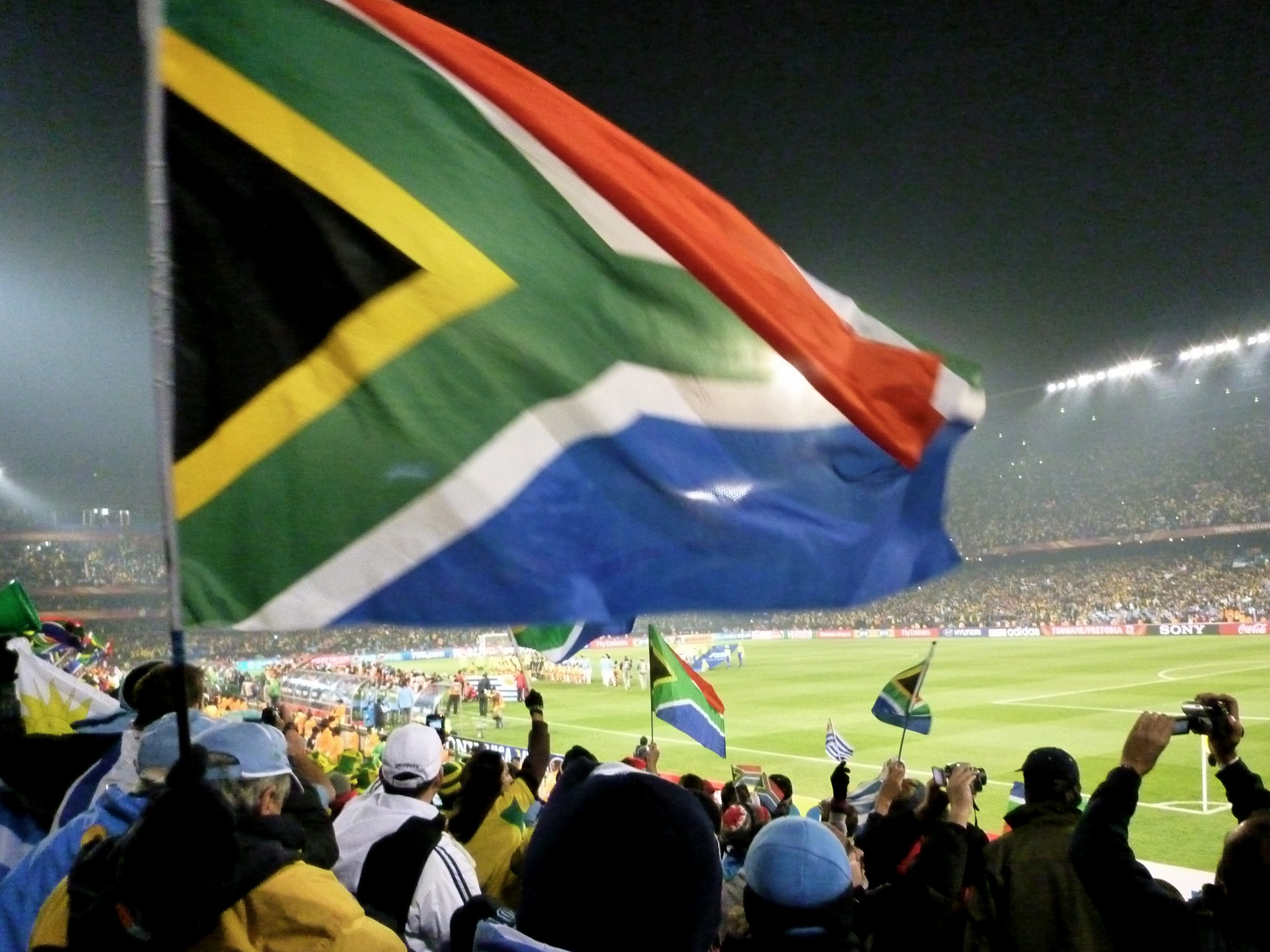 Rainbow nation flag